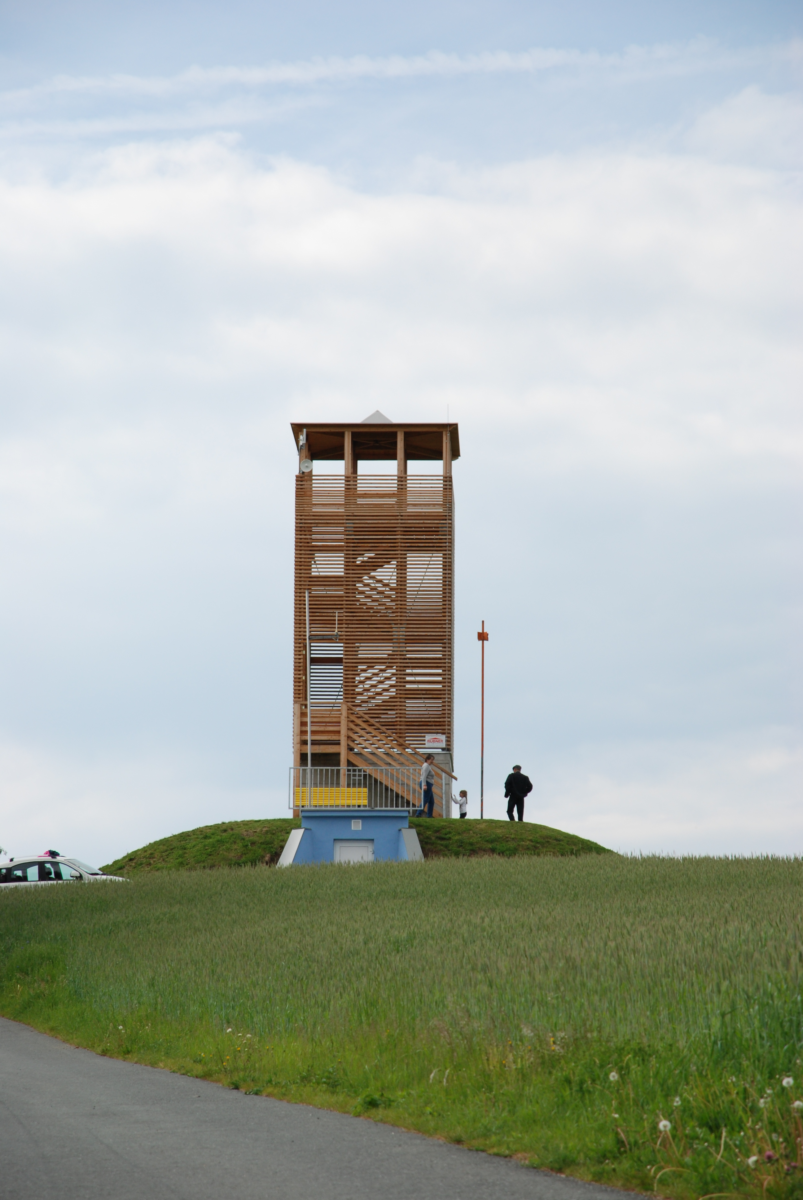 Warte Aschau